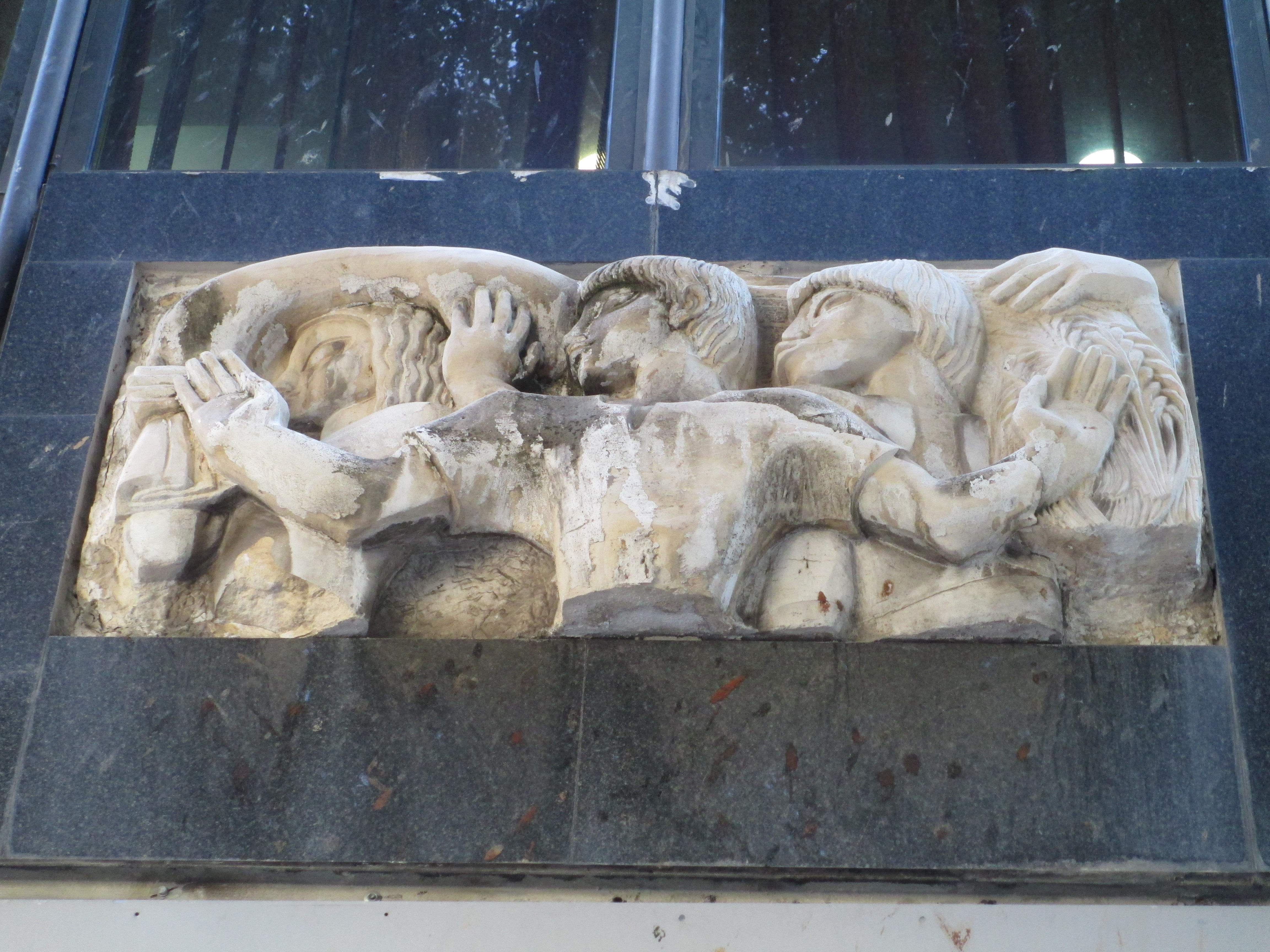 Joseph the feeder relief in Tel Aviv